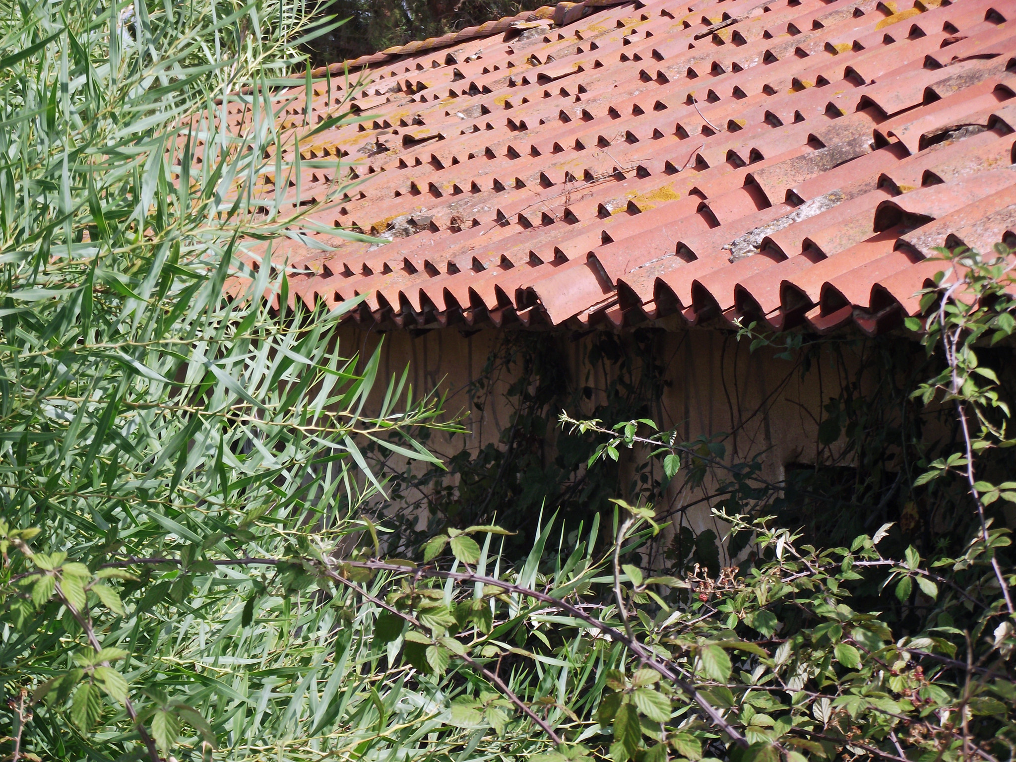 The passenger building of the former Cortoghiana train station in Carbonia, Sardinia, Italy. It was built along the San Giovanni Suergiu-Iglesias railway, closed in 1974